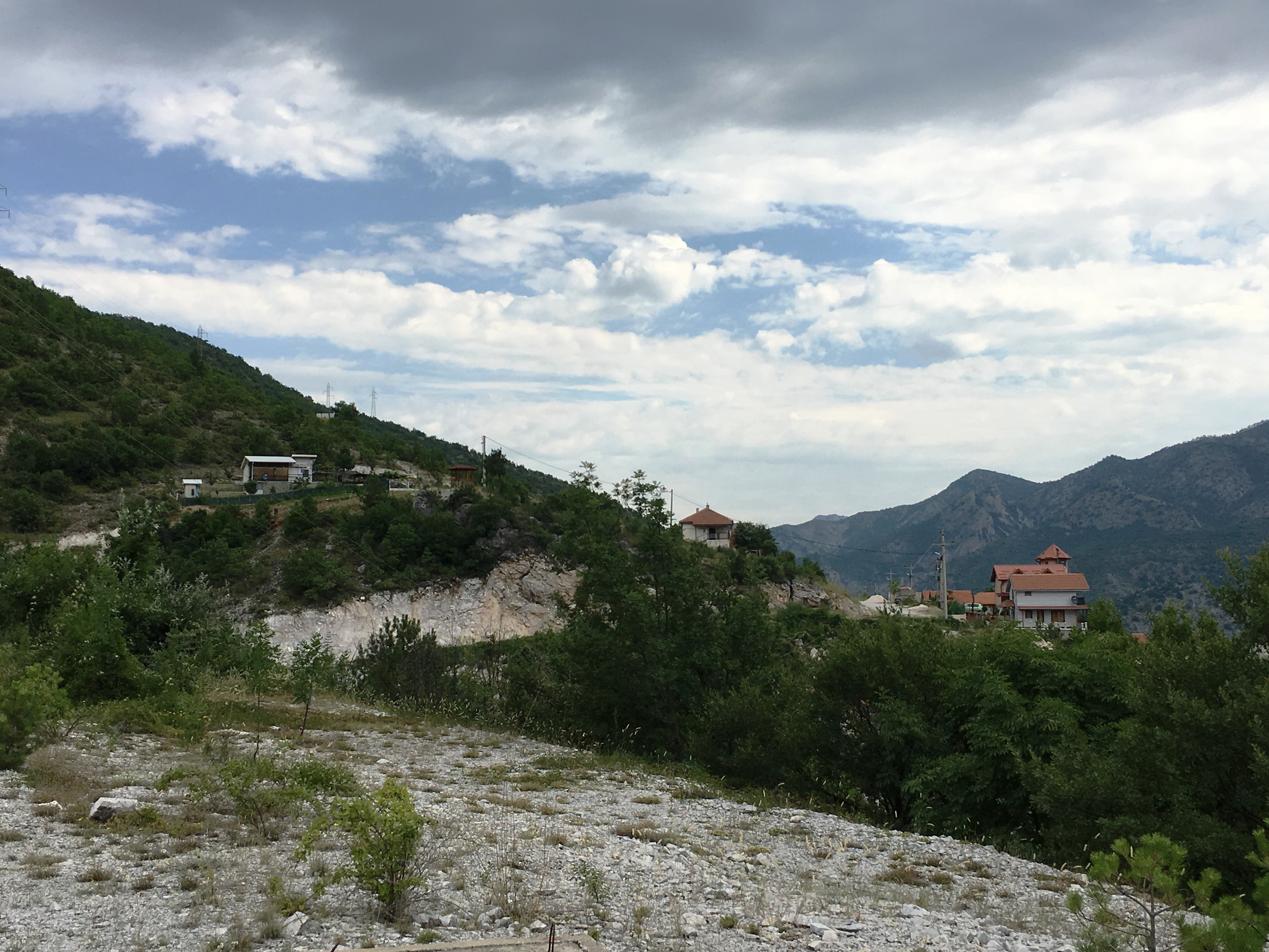 View of the village of Zdunje